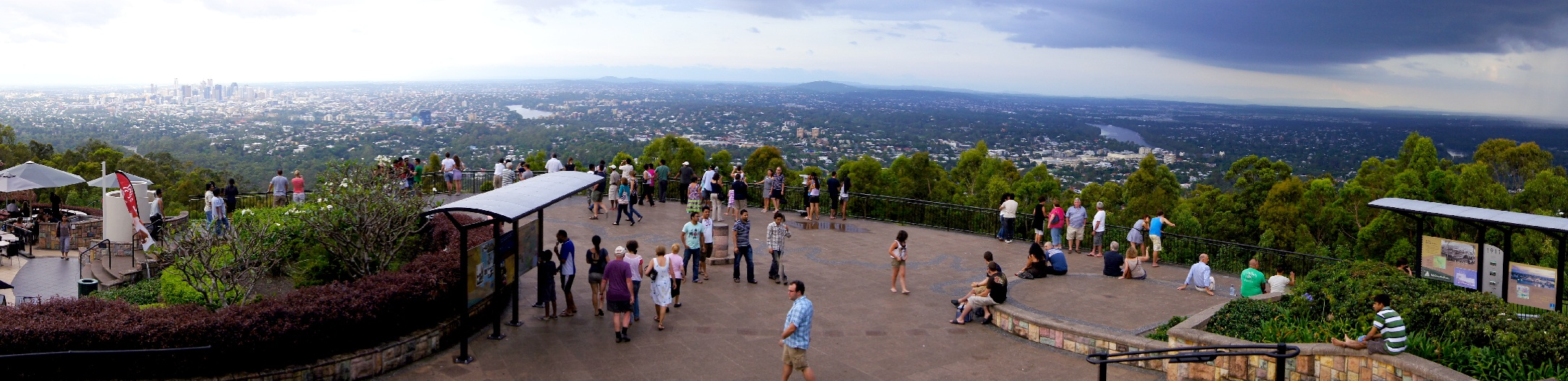 The iconic Brisbane Lookout at scenic Mt. Coot-tha. 287 metres above sea level. VIEW larger! Probably the safest place to stay now, as Brisbane is facing one of the the worst flooding in history. Note to my friends: do not worry about me, I am in relatively high ground in Brisbane